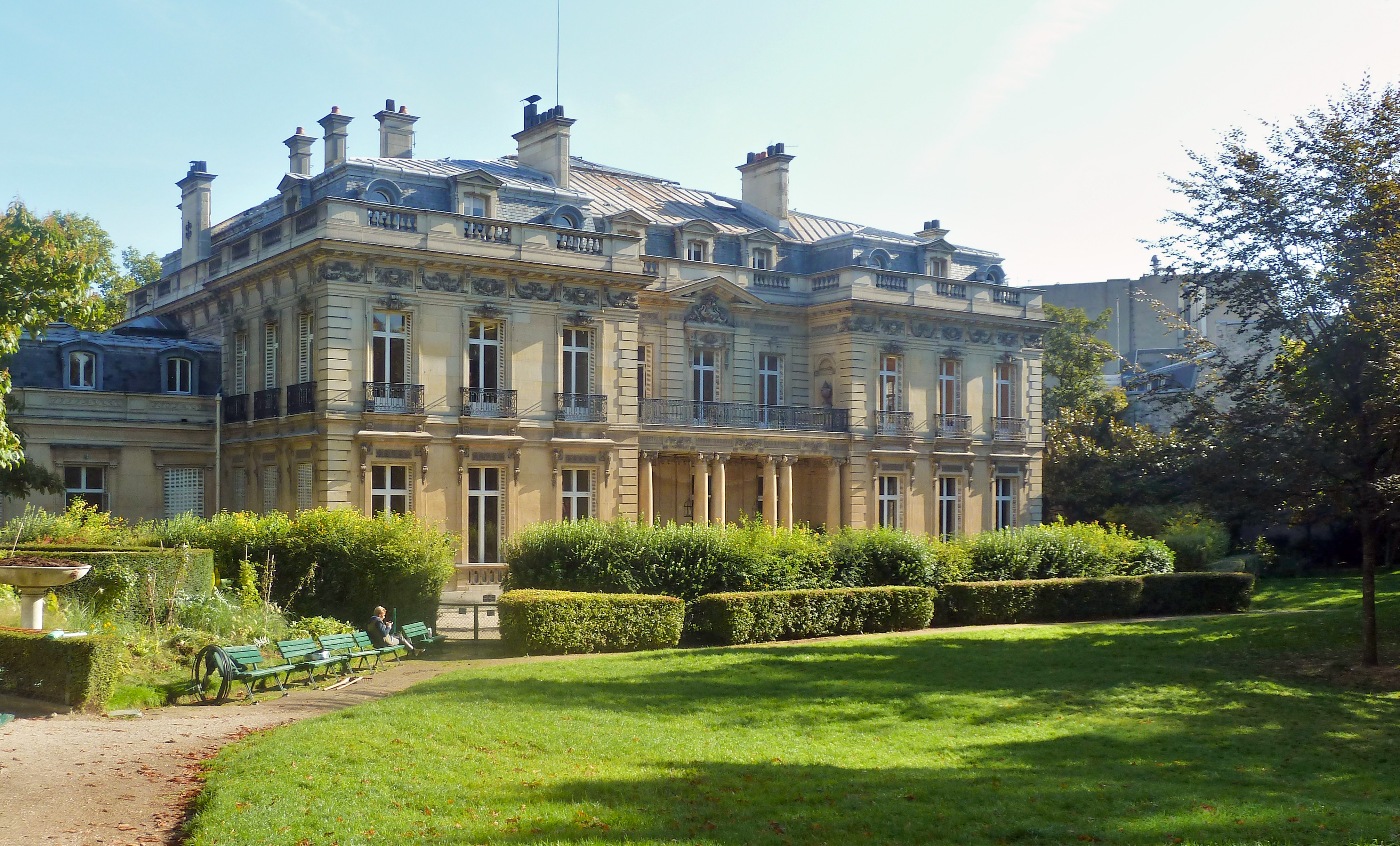 Avenue de Friedland - Palais Salomon Rothschild (Oktober 2016)